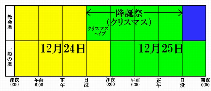 Explanation for Christmas calendar in Japanese